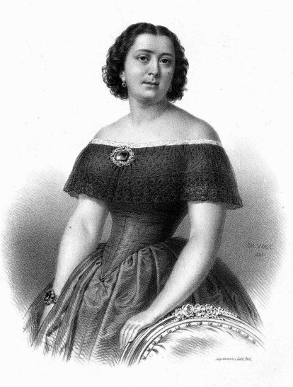 Italian opera singer Marietta Alboni (1826-1894) by Charles Vogt (18??-18??)